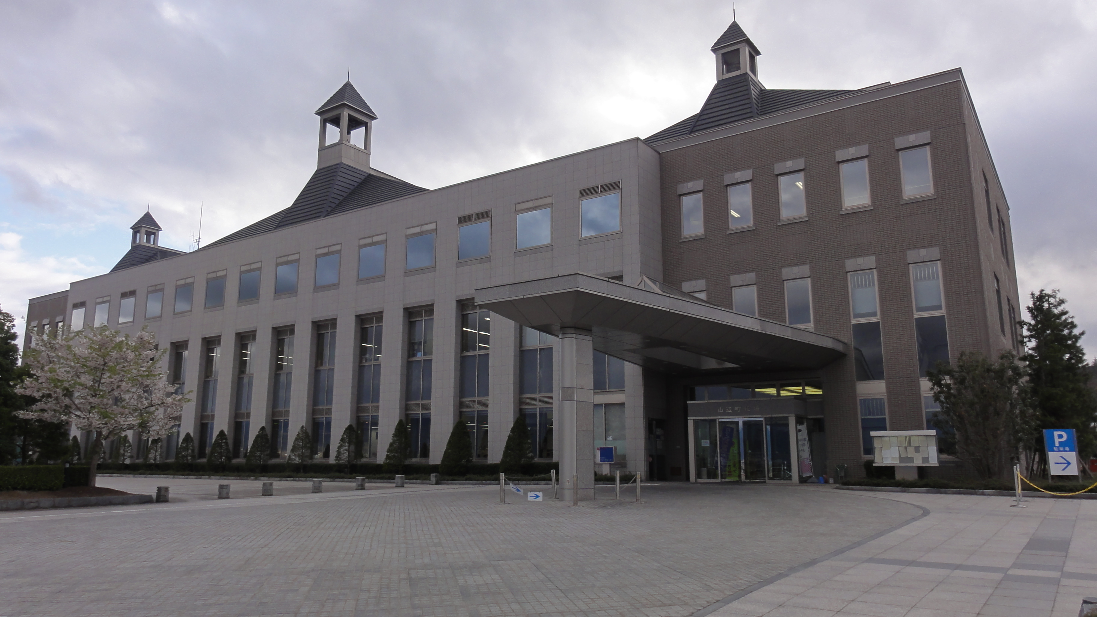 Yamanobe town office,Yamagata prefecture,Japan